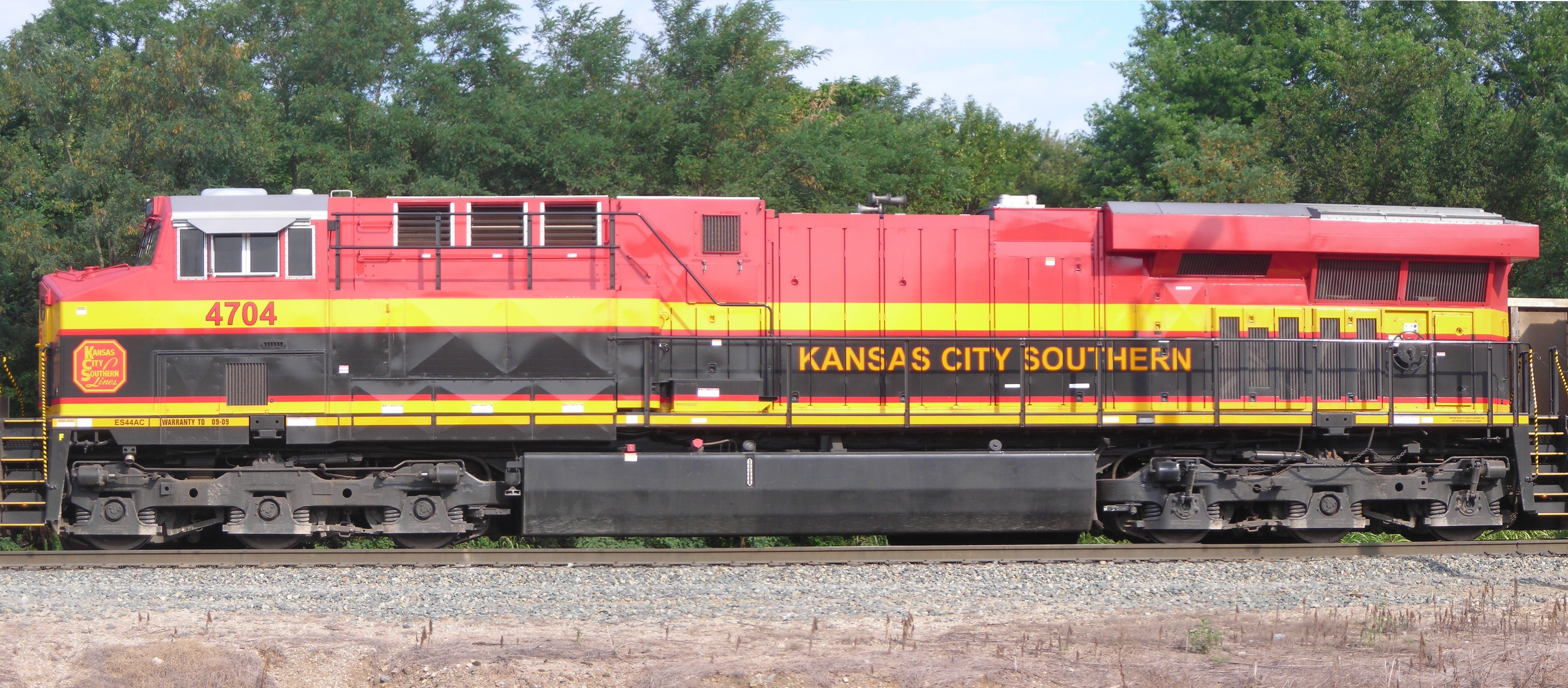 Kansas City Southern Locomotive. Taken on the KCS line in Pittsburg, KS.